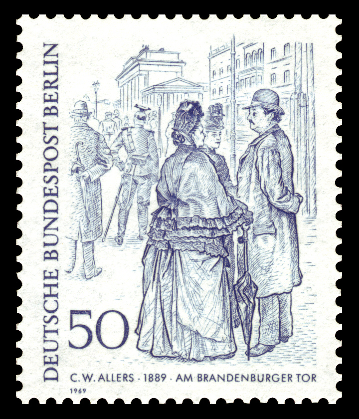 People of Berlin of the 19th century